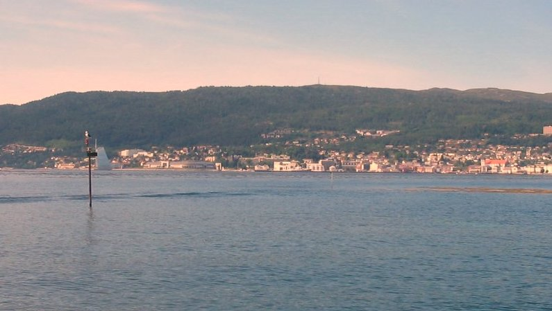 The photo shows Molde and was taken from an adjacent island.